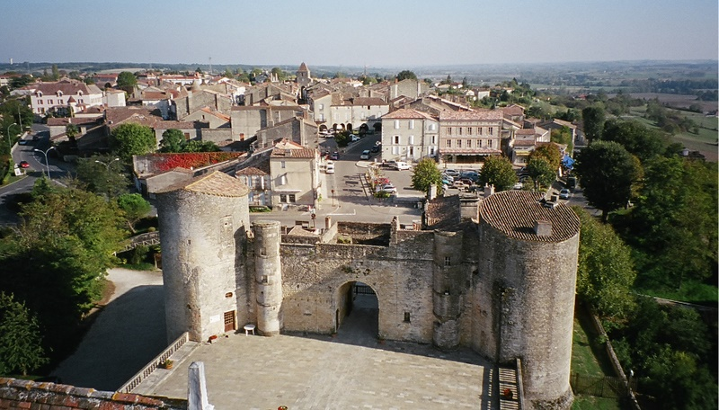 Portal of the Château de Duras, Lot-et-Garonne, France